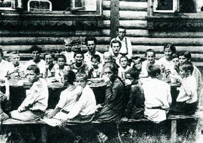 The Jewish children's commune in Malakhovka. Dinner, in the center Mark Shagal, on his left director Shwartzman. 1920 or 1921